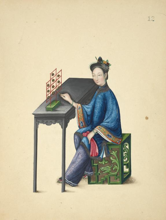 China watercolours from 1800s. Woman playing a shimianluo.